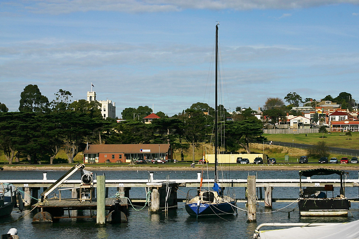 Portarlington, Victoria as seen from the town's pier; mfunnell; 18JUN2005